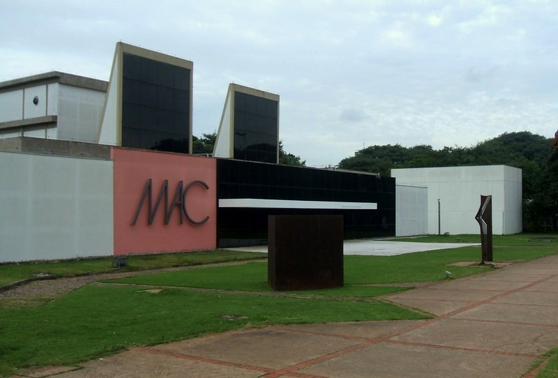 Façade of the Museum of Contemporary Art, University of São Paulo, in São Paulo City, Brazil.